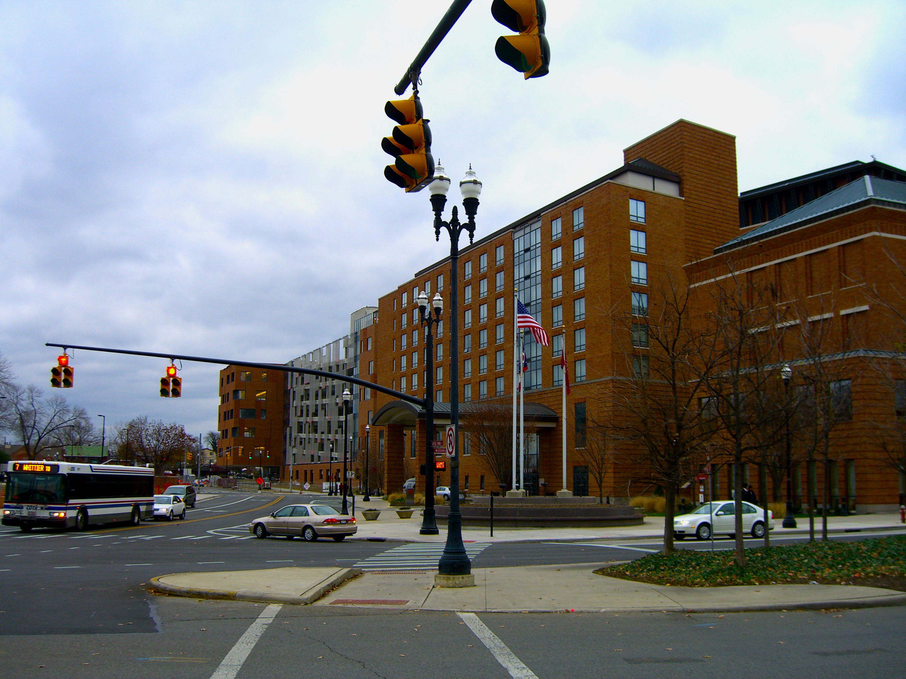 The Blackwell Inn